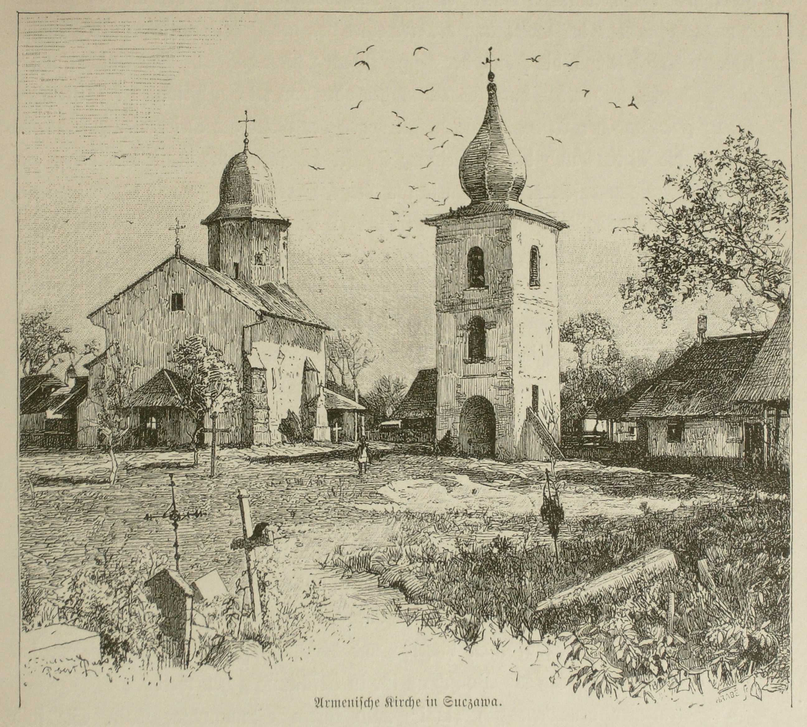 St. Simon Armenian Church in Suceava - xylography by Rudolf Ruß (1899).